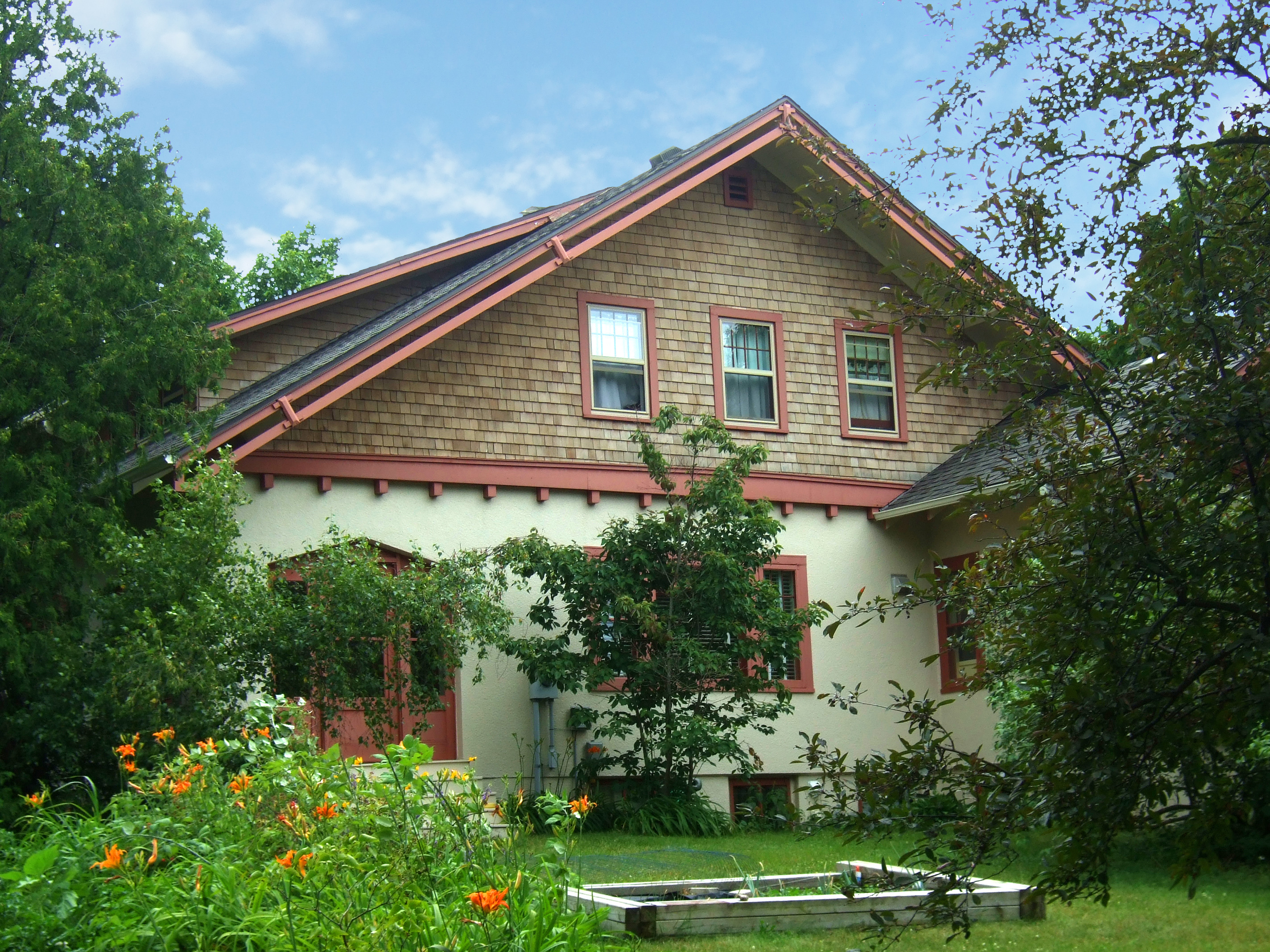 The John R. and Nell Commons House, known as "Hocheera," is located at 1645 Norman Way in Madison, Wisconsin. This large stucco house was designed by noted Madison bungalow designer Cora Tuttle and constructed in 1913. It was added to the National Register of Historic Places in 1985. Until 1937, it was the home of John R. Commons, a University of Wisconsin professor of economics. Commons was nationally significant as the author of important social reforms in the Progressive Era that helped pave the way for Roosevelt's New Deal. Commons was the mentor of many outstanding economists and is credited with originating "the Wisconsin Idea" in which university faculty serve as advisors to state government.